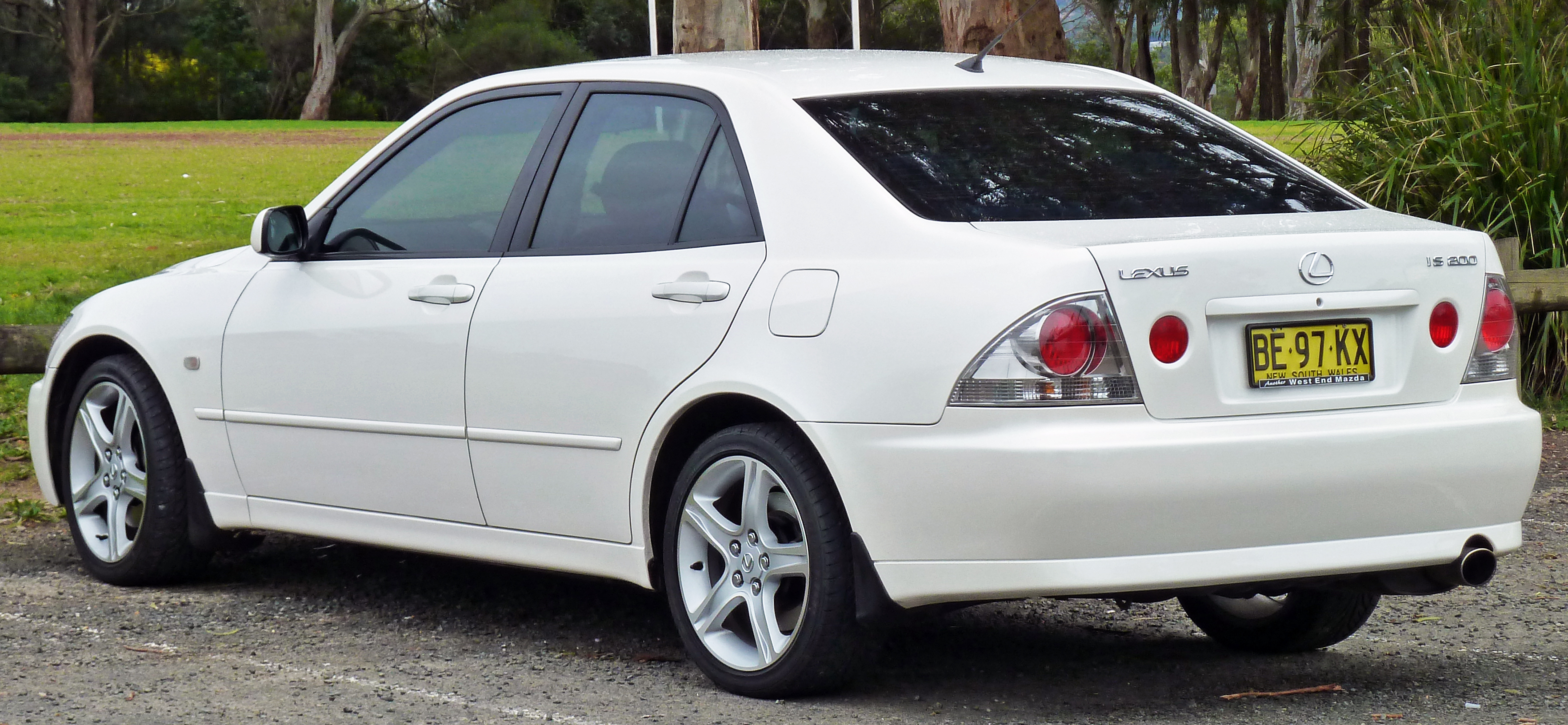 2001 Lexus IS 200 (GXE10R) sedan. Photographed in Kareela, New South Wales, Australia.